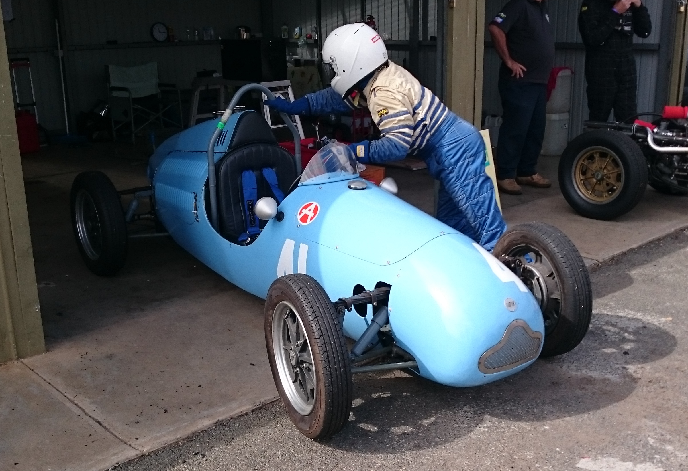 Cooper Mk IV of Garry Simkin at the National Historic Race Meeting at Mallala Motor Sport Park on 22 April 2017